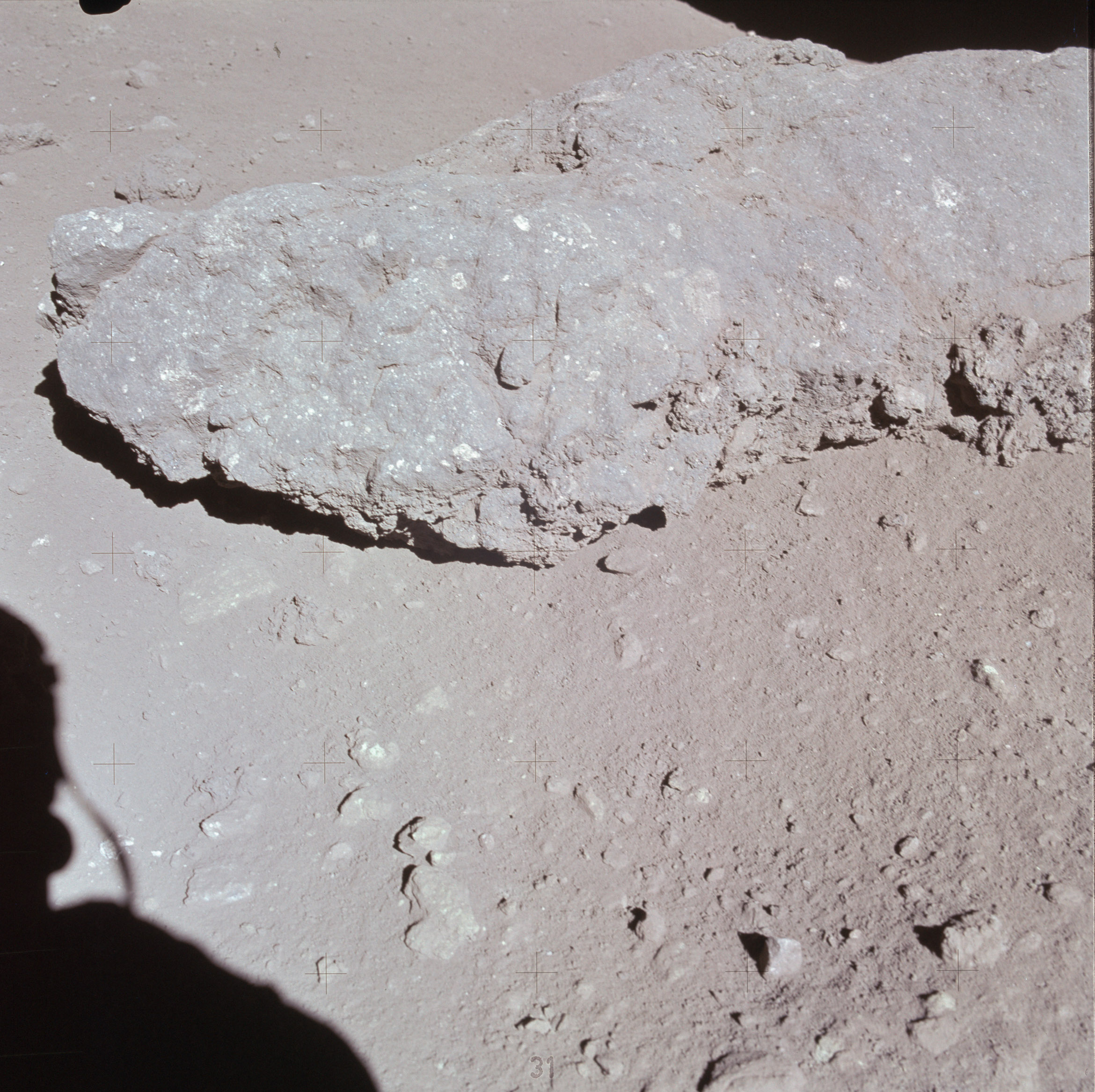 Boulder of impact melt breccia at Spur crater, on the moon. Taken during Apollo 15 mission to the moon, at Station 7. Shadow of astronaut David Scott at left. This is figure 3-21 of the Apollo 15 Preliminary Science Report (NASA SP-289, 1972), which has the following caption: During EVA-2, the Apollo 15 crew found this boulder at station 7, Spur Crater. This boulder is a breccia with a dark matrix and white clasts. A representative specimen of this type of breccia was returned to Earth as sample 15445.